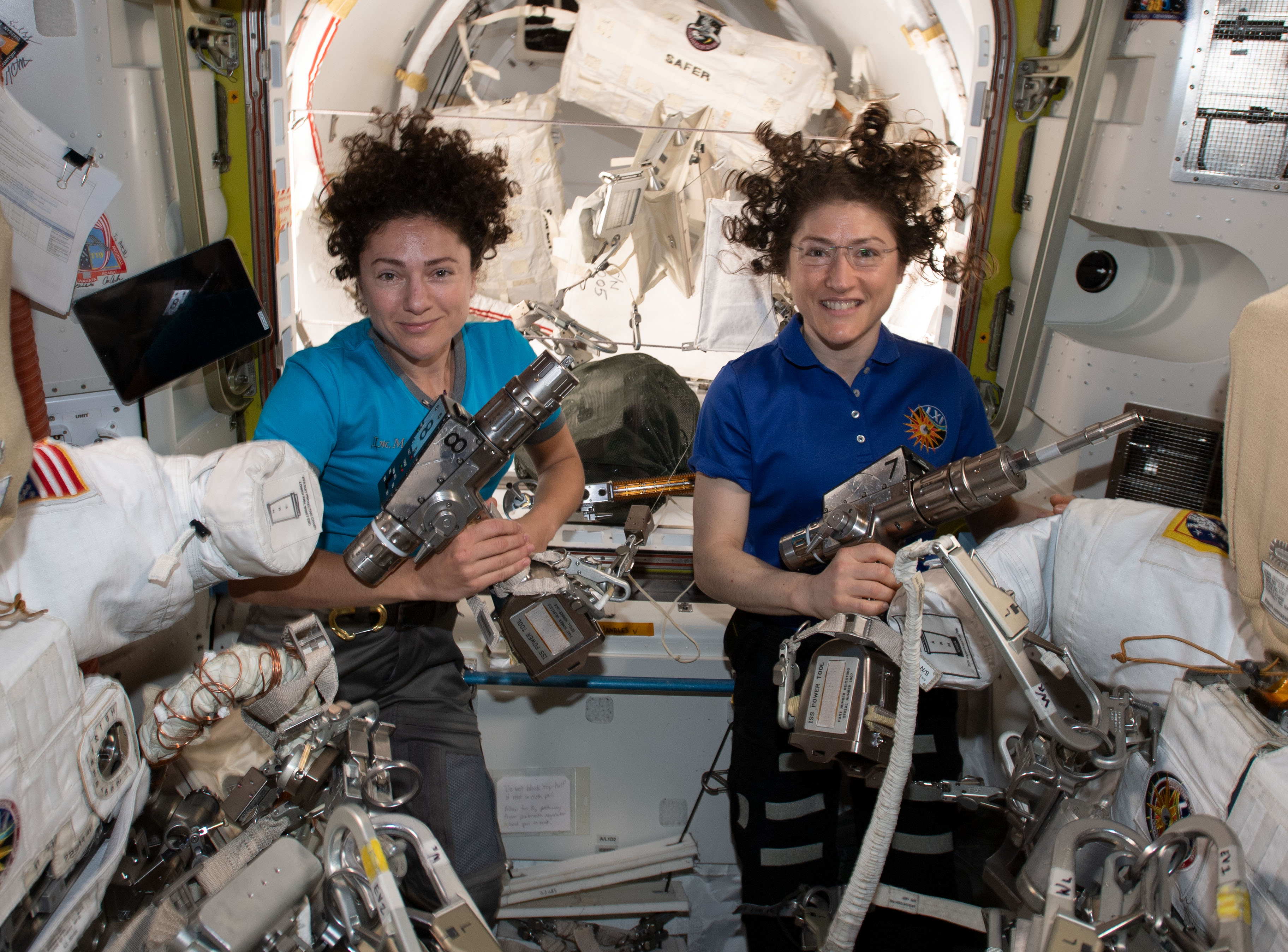 Jessica Meir and Christina Koch, NASA astronauts Expedition 61